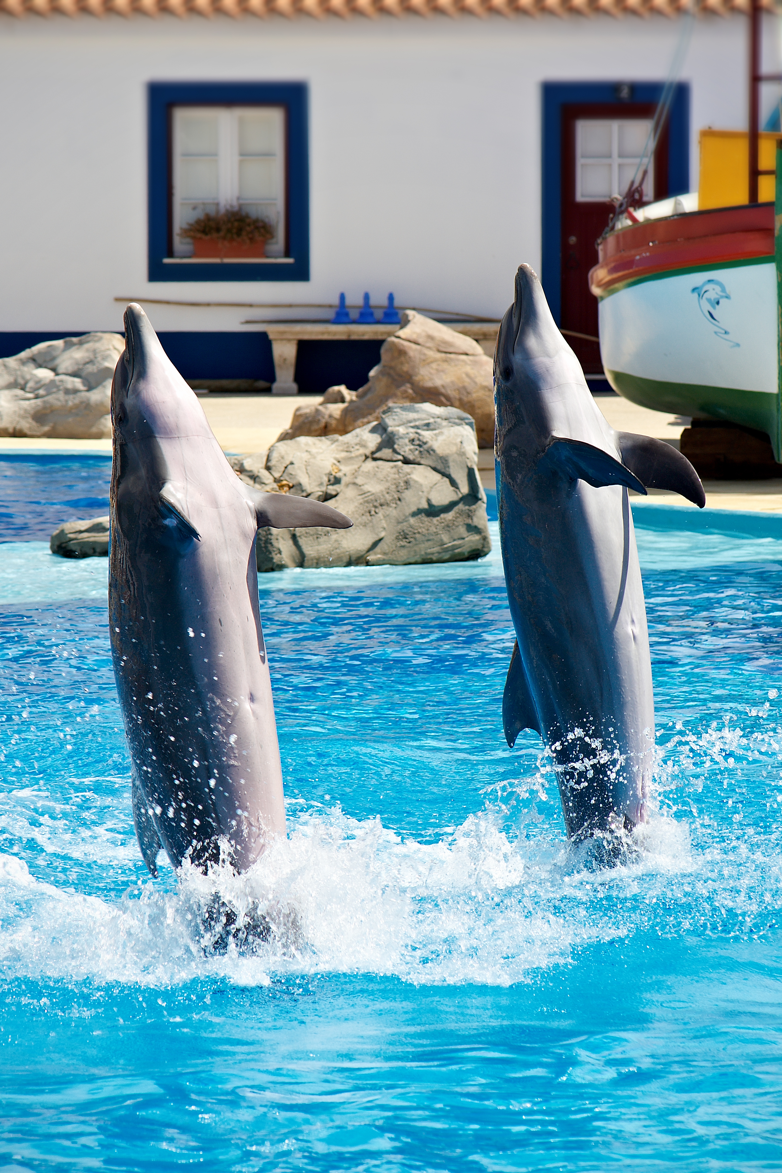 Taken during dolphin show in Lisbon Zoo 105mm VR with TC-17E